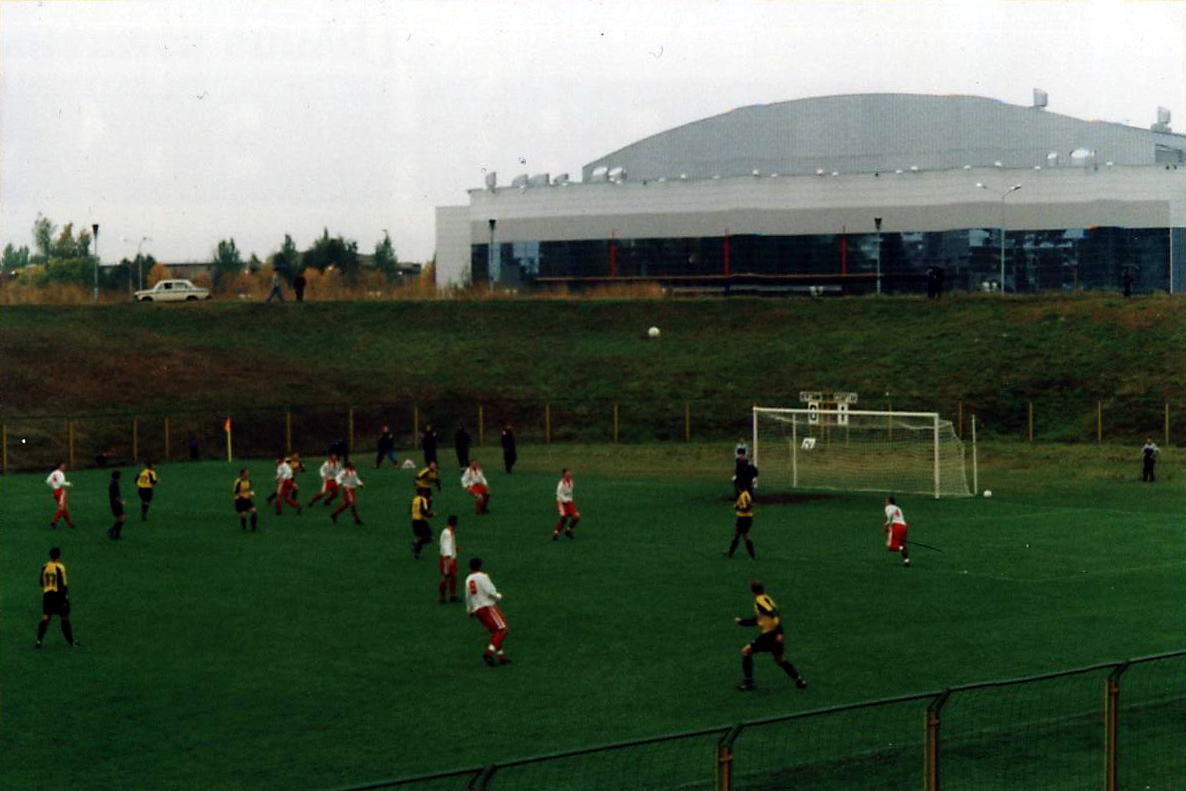 FC Neftyanik Yaroslavl - FC Spartak Kostroma. Yaroslavl, Atlant Stadium, 2001. The "Arena-2000" in the background.